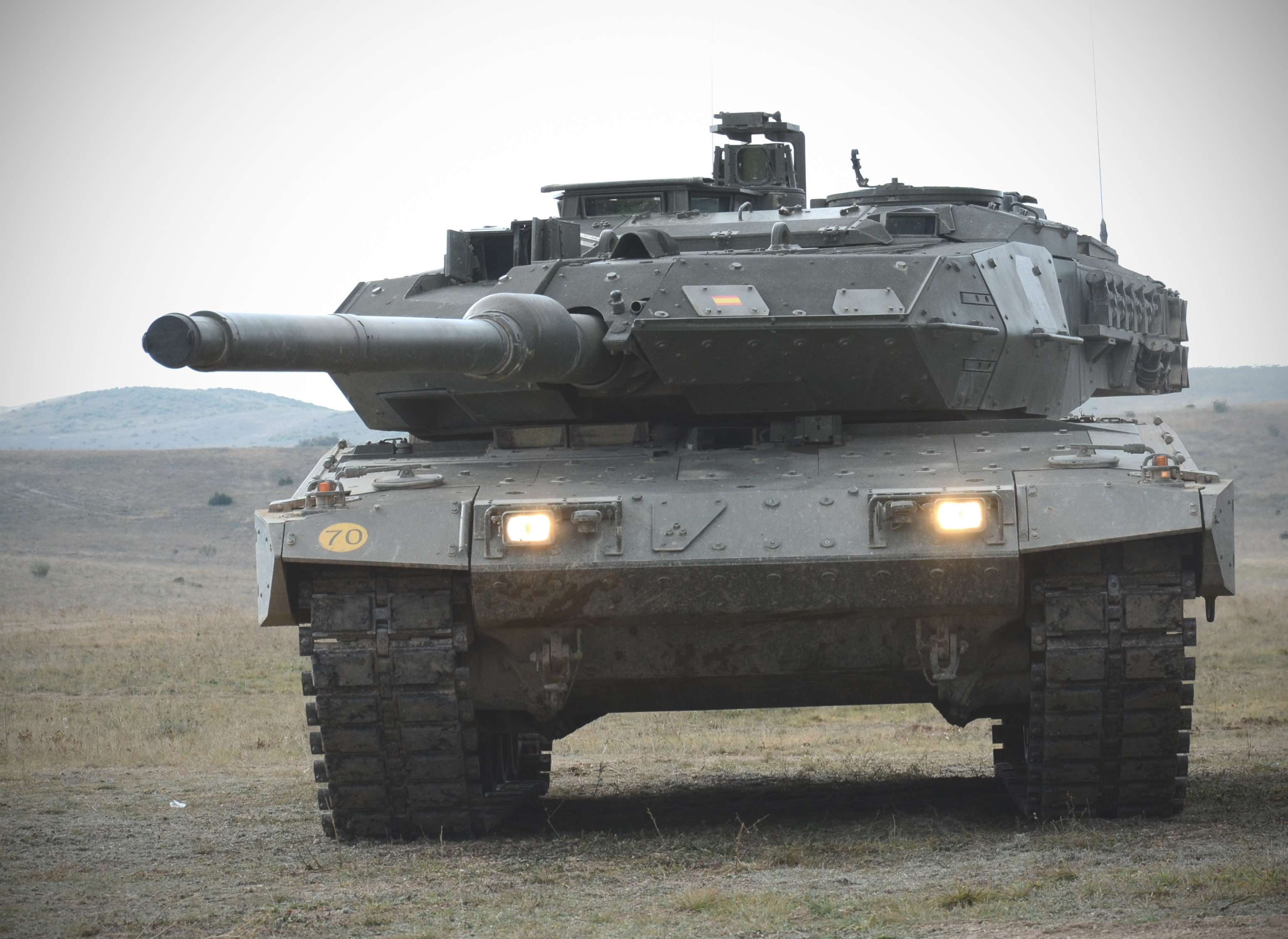 A Leopard 2A6 from Spanish Armed Force during Trident Juncture 2015 NATO photo by Karl Schoen